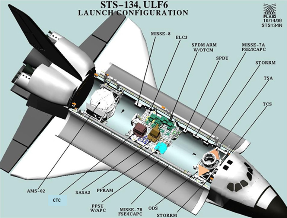 Payload Overview, STS-134, ULF6 Launch Configuration